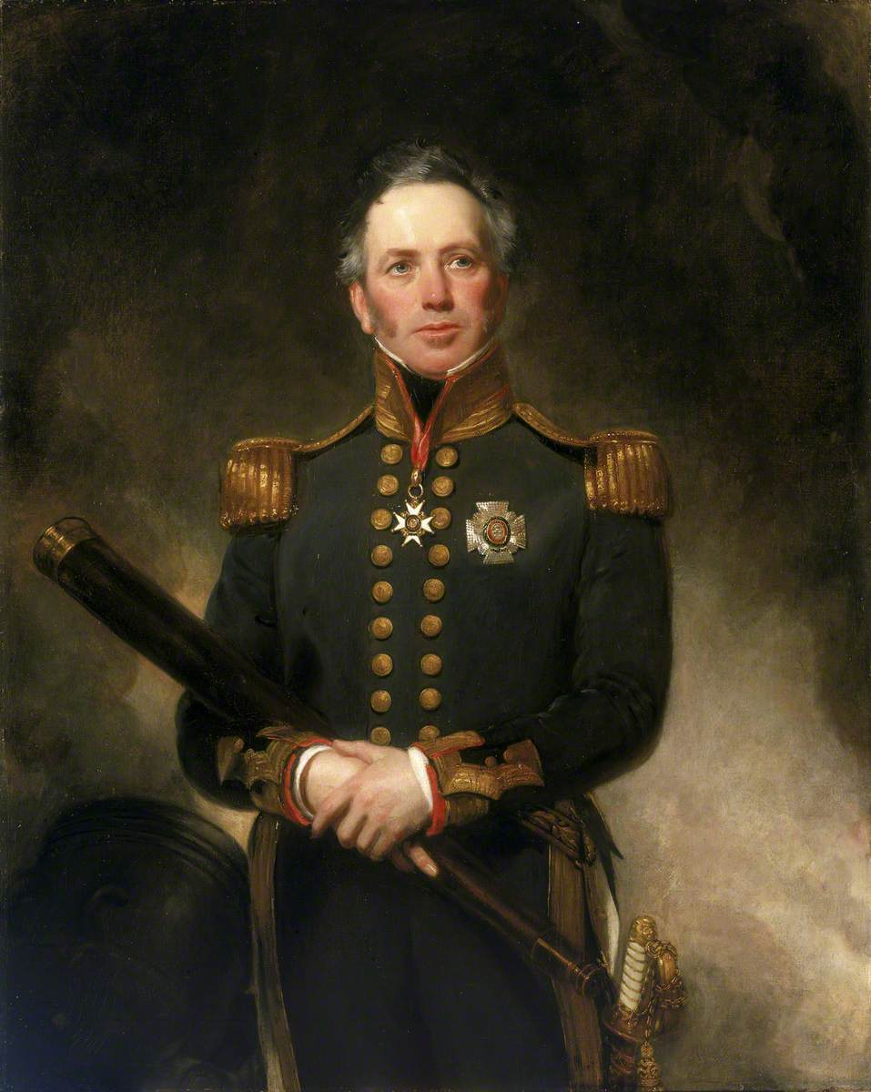 A portrait of naval officer Edward Brace, created in 1837 by Henry William Pickersgill